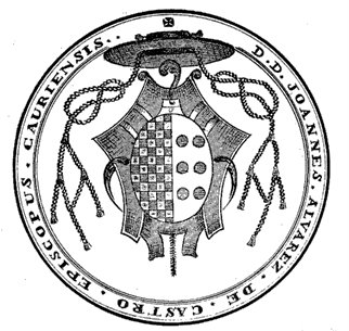 1790 seal of the Bishop of Coria, Juan Álvarez de Castro